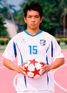 shot by et chen